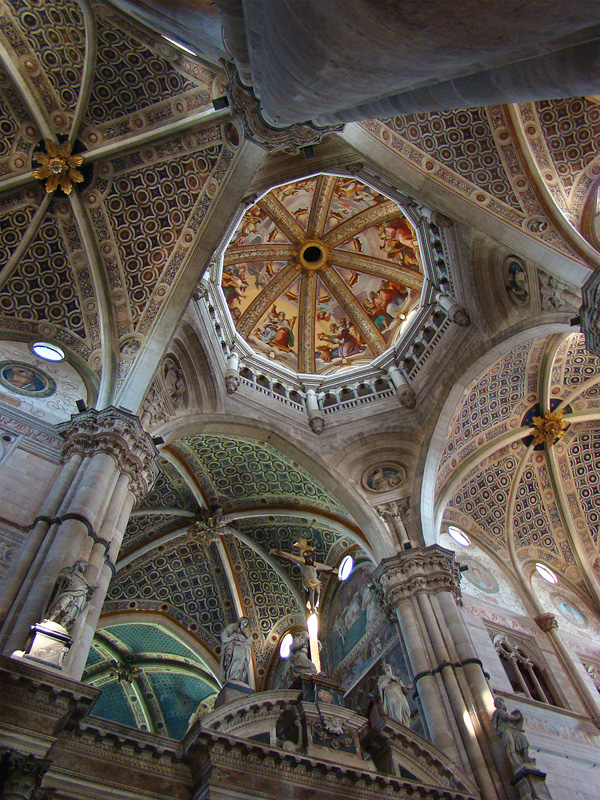 Certosa di Pavia, Lombardy, Italy.